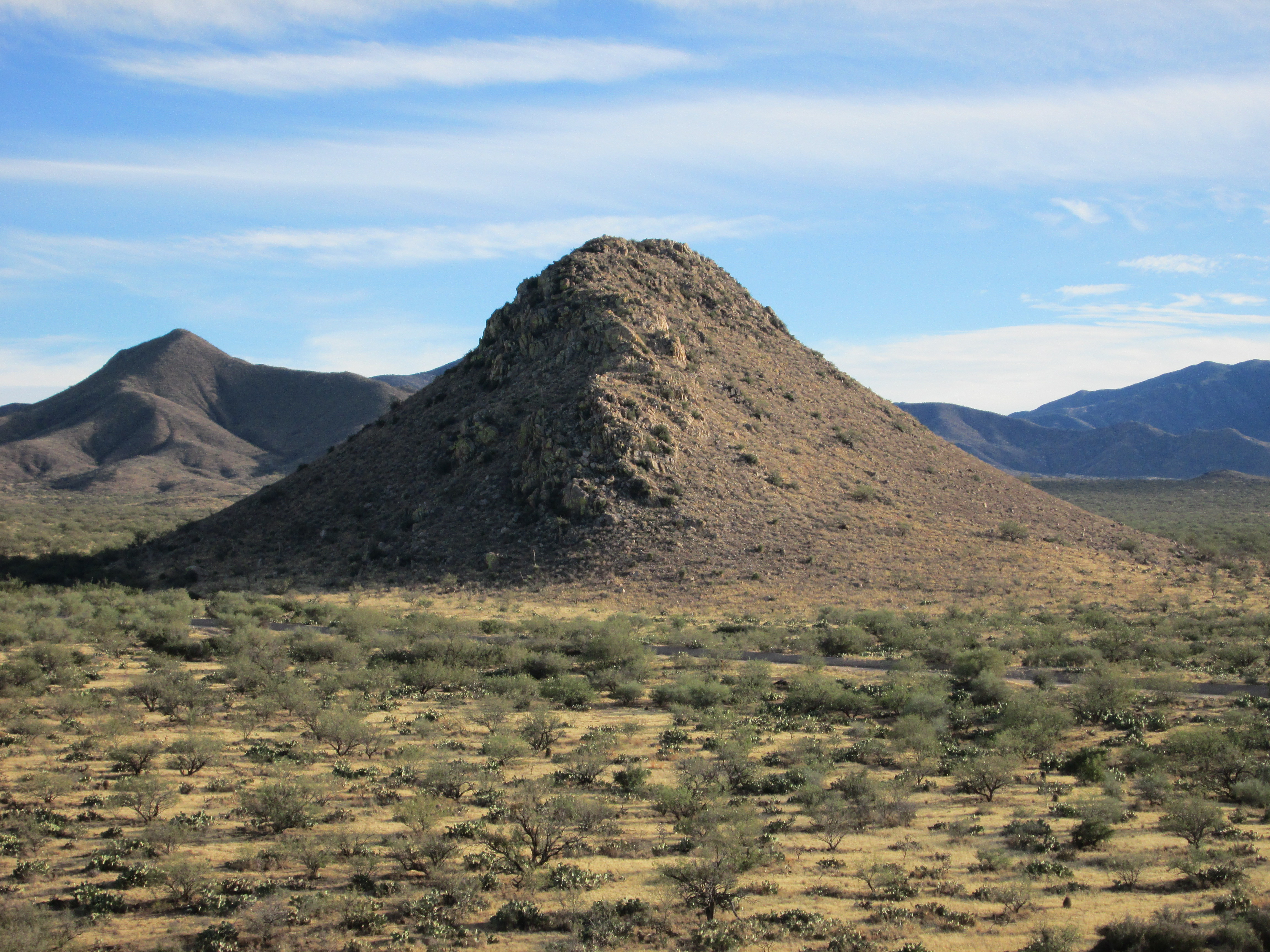 Huerfano Butte in Pima County, Arizona, on December 3, 2013, from the northwest.